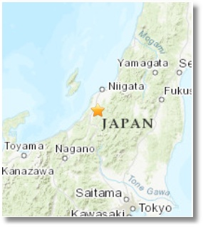 M 4.6 - near the west coast of Honshu, Japan 2010-05-01 09:20:40 (UTC)